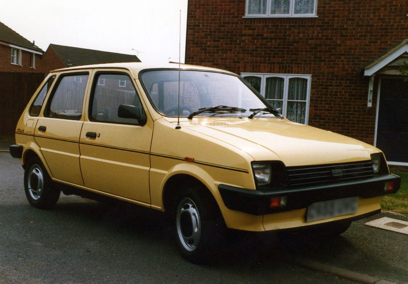 An Austin Metro 1.0 City X with a 998cc petrol engine. Registred in August 1985.